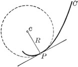 Tangent to a curve.